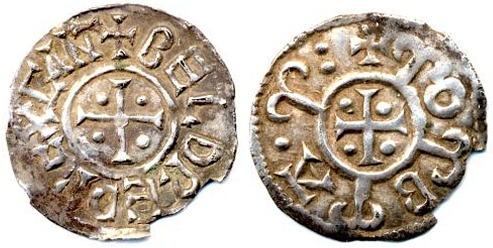 Coin of Baldred, King of Kent (c. 821–c. 825), minted in Canterbury by Oba, EMC number 2006.0373